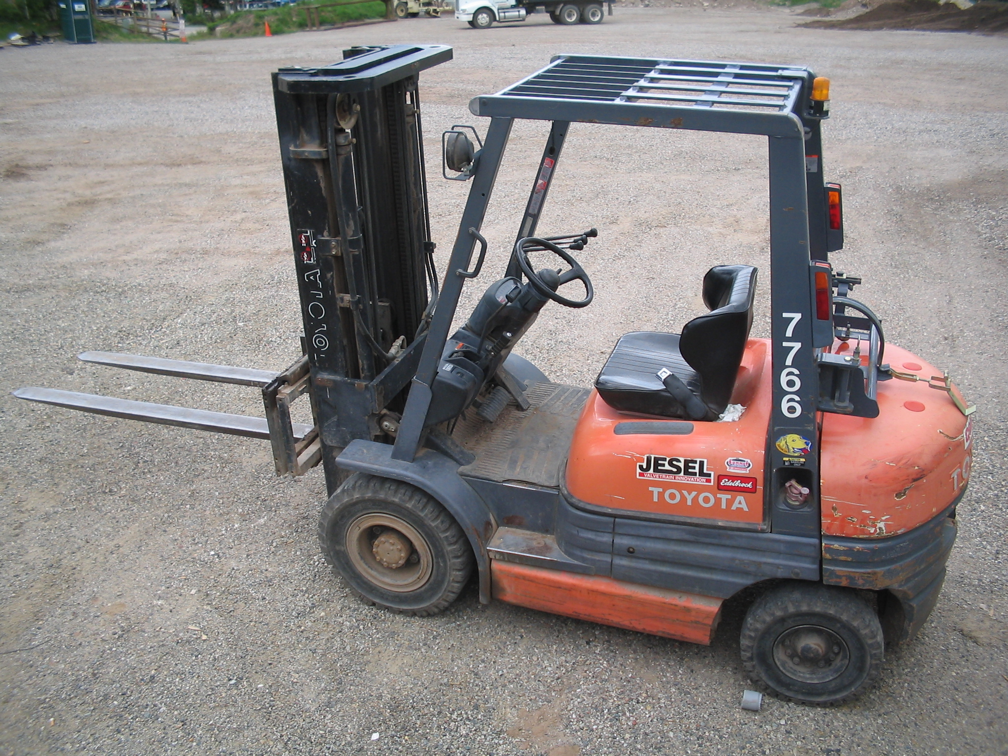 A Toyota forklift. The forks are 6 feet long. The three handles near the steering wheel control, from left, up/down, tilt forward/backward, and shift left/right. The brake pedal is especially wide. It's designed to be used by either foot. When raising a heavy load, one brakes with the left foot while applying gas with the right. The forklift runs on either gasoline or propane. The gas cap is visible over the rear wheel. The curved structure in the back is for holding a propane tank. The rear wheels turn, not the front ones. David Benbennick took this photo on June 15, 2005 at 2:21 PM (20:21 UTC). This is one of two forklifts I drive at work.